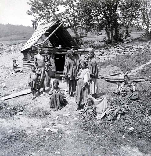 Romové, Halič / Roma people, Halič (not clear whether Halič denotes territory of Galicia (more likely) or town of Halič, Ukraine)